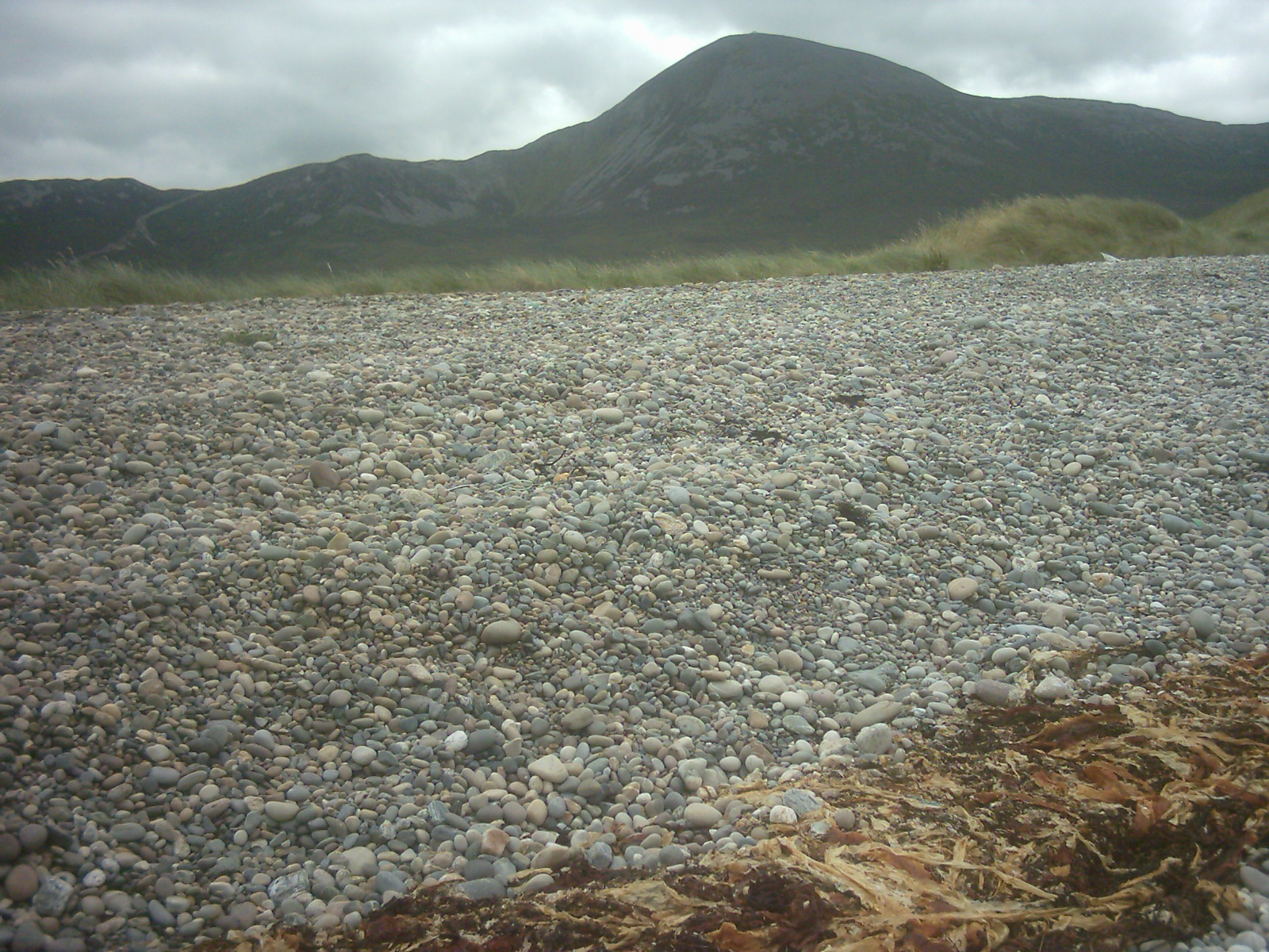 Bertra